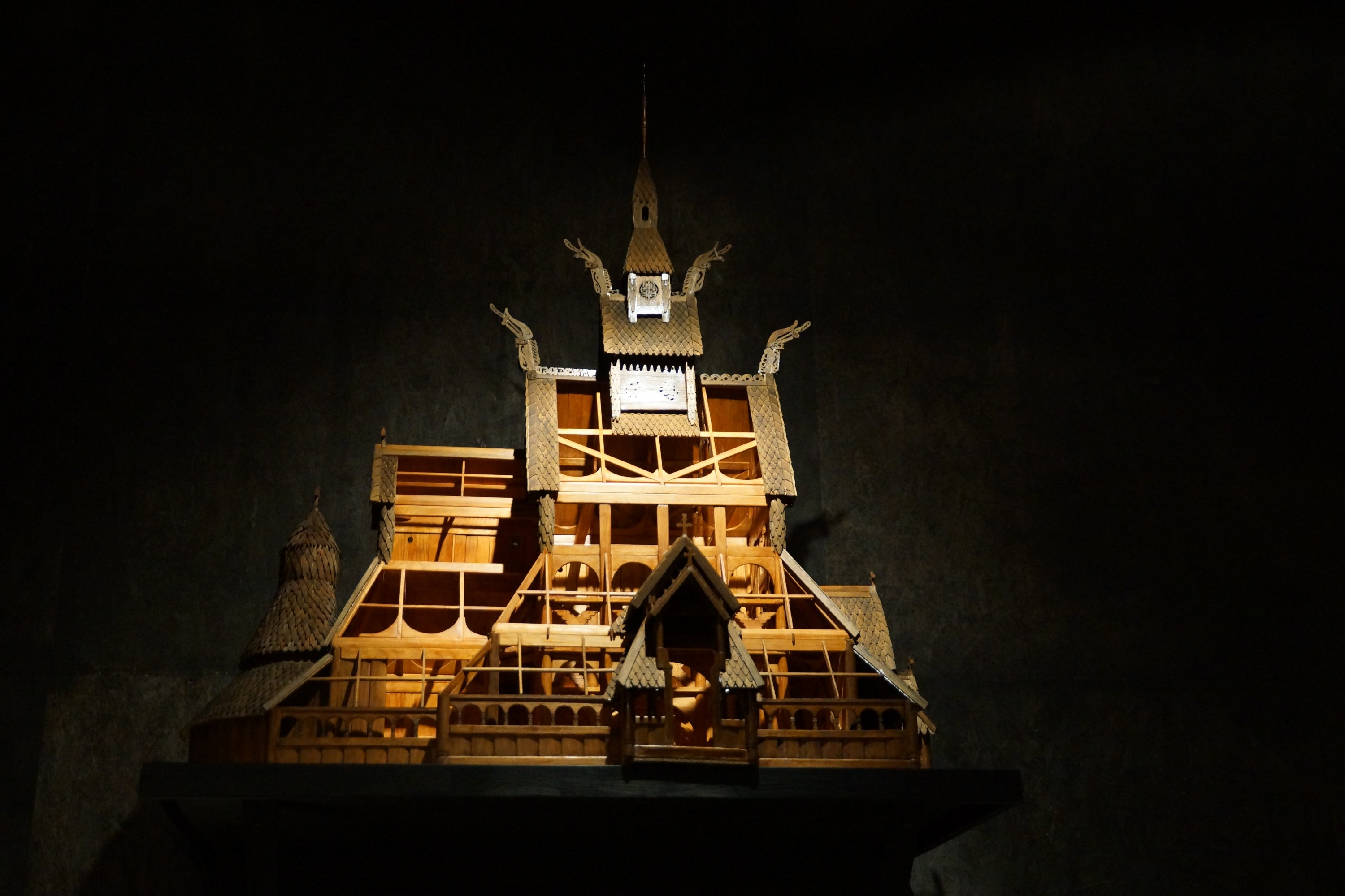 Stavkirke de Gol, Norvège, maquette